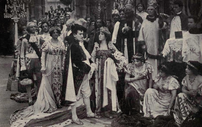 Still from the film Napoleon, the Man of Destiny (USA 1909), directed by J. Stuart Blackton and starring William J. Humphrey as Napoleon. The still was published in David S. Hulfish, Cyclopedia of Motion-Picture Work (1914).